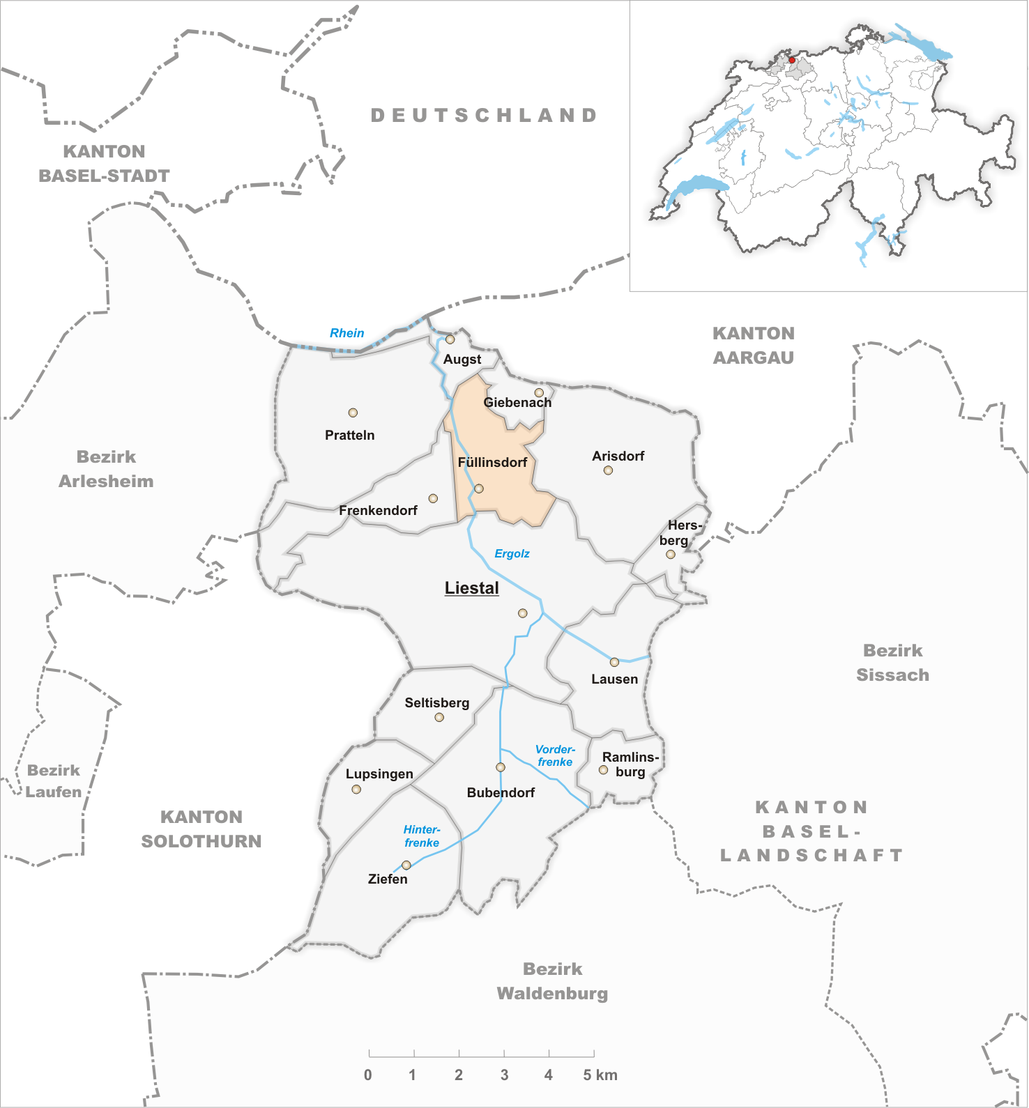 Municipality Füllinsdorf